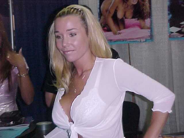 Halloween Ball, Say Boo To Censorship March